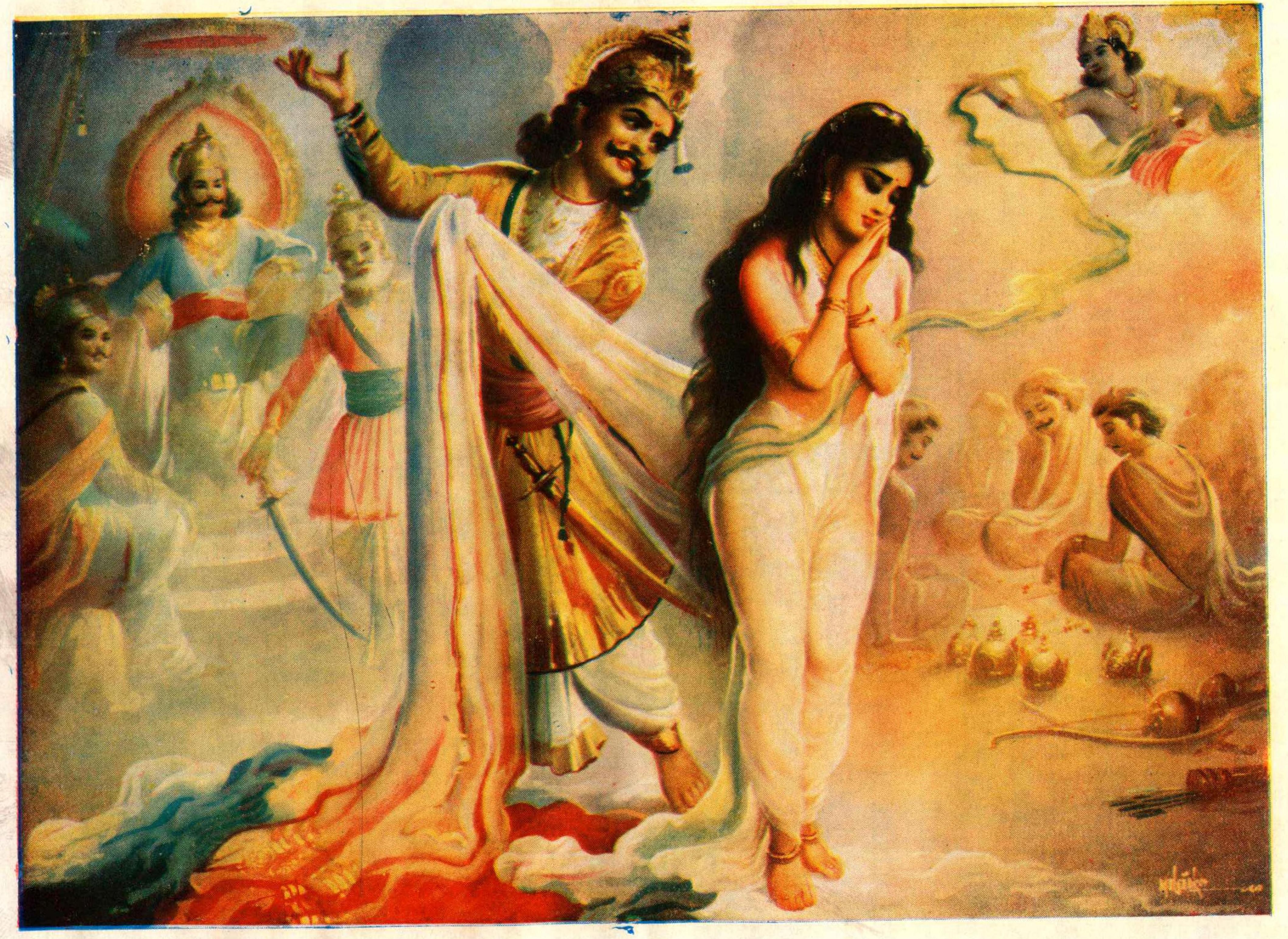 Mahabharata Tej Kumar Book Depot Mahavir Prasad Mishra by MahaMuni Usage Topics Sanskrit, "महामुनि का संग्रह", "Tej Kumar Book Depot" Collection opensource Language Sanskrit Indological Books , 'Mahabharata Tej Kumar Book Depot - Mahavir Prasad Mishra.pdf' Identifier MahabharataTejKumarBookDepotMahavirPrasadMishra Identifier-ark ark:/13960/t2994g734 Ocr language not currently OCRable Ppi 600 Scanner Internet Archive HTML5 Uploader 1.6.3